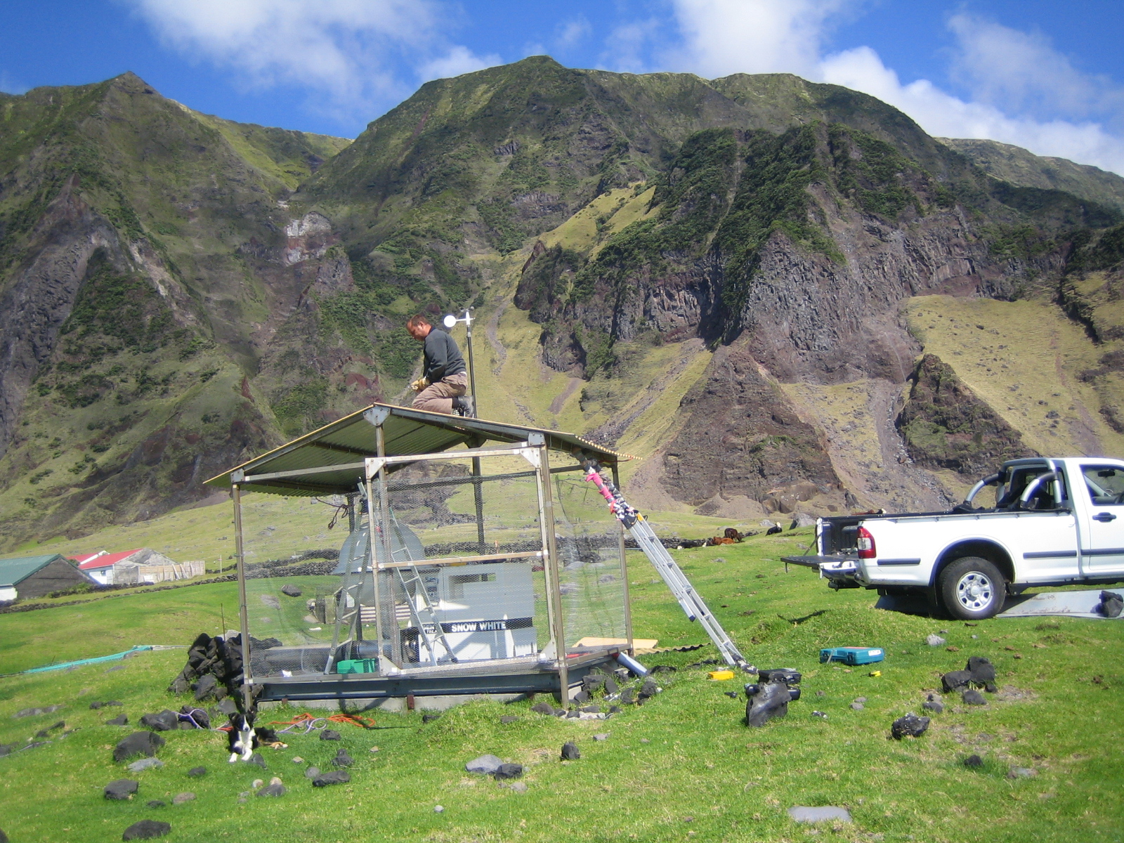 Installations at Radionuclide Station RN68 Tristan de Cunha, UK